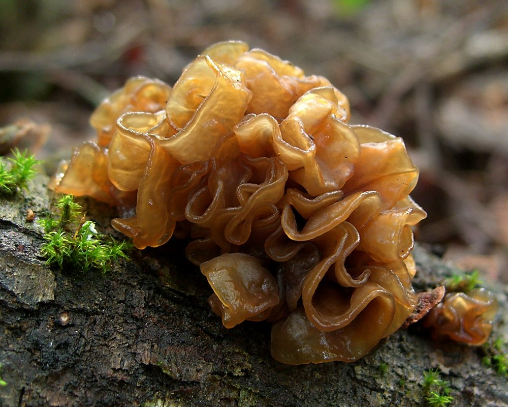 Scientific Name: Tremella frondosa Common Name: unknown Certainty: not sure (notes) Location: Southern Appalachians; Smokies; CabinCove Date: 20060704